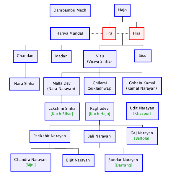 Family Tree of the Koch Dynasty (Origin)